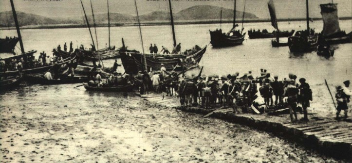 1950年，舟山战役，解放军进行兵运